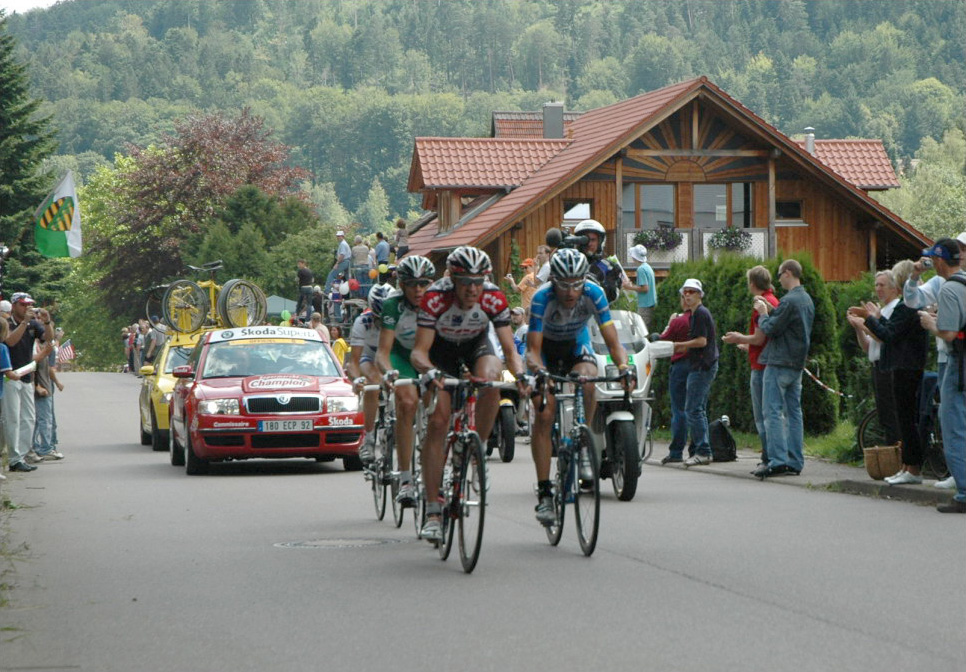 8th stage. The pursuiants with Jens Voigt and George Hincapie.